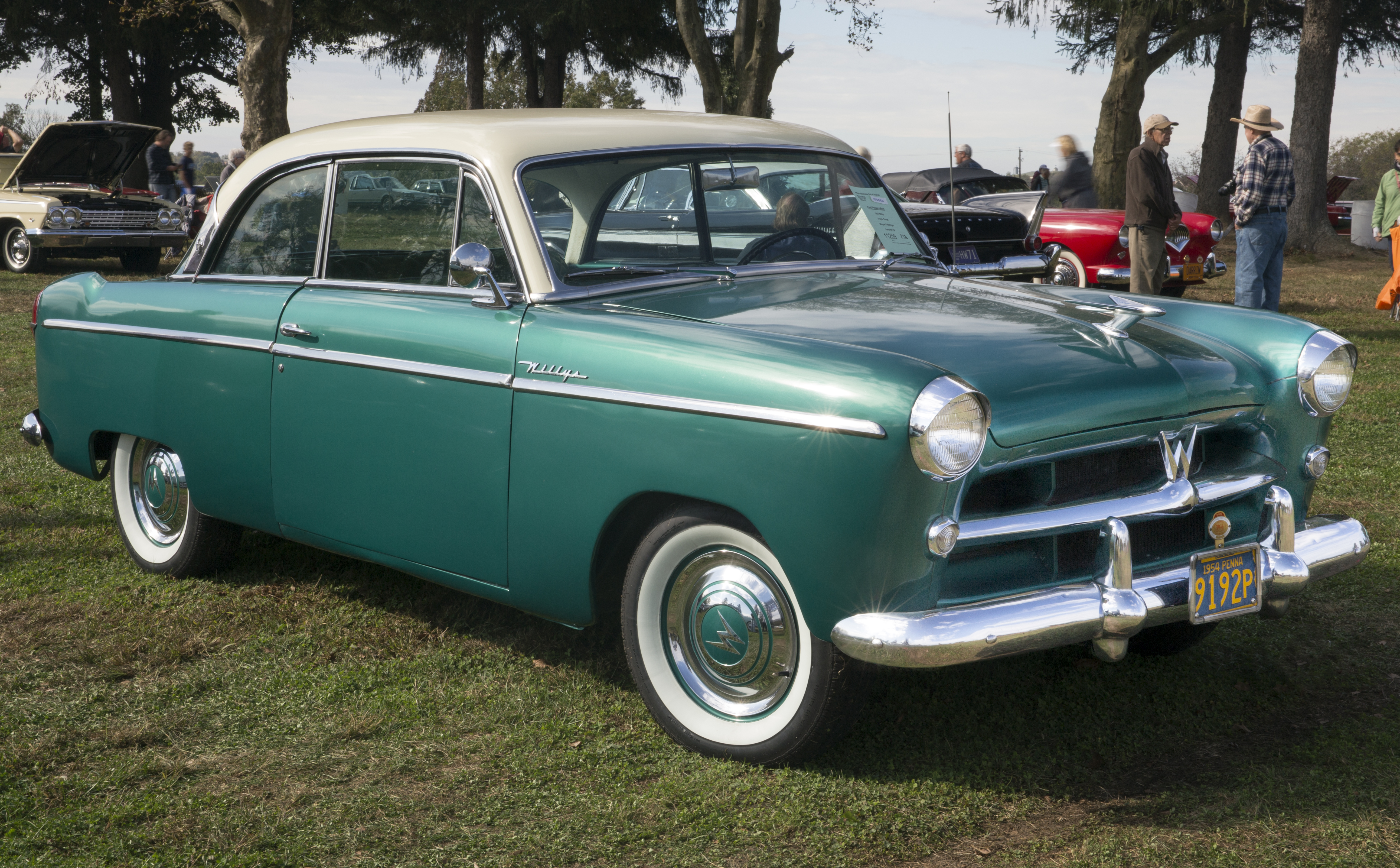 A 1954 Willys Aero Eagle Hardtop in the show area at Hershey 2019.